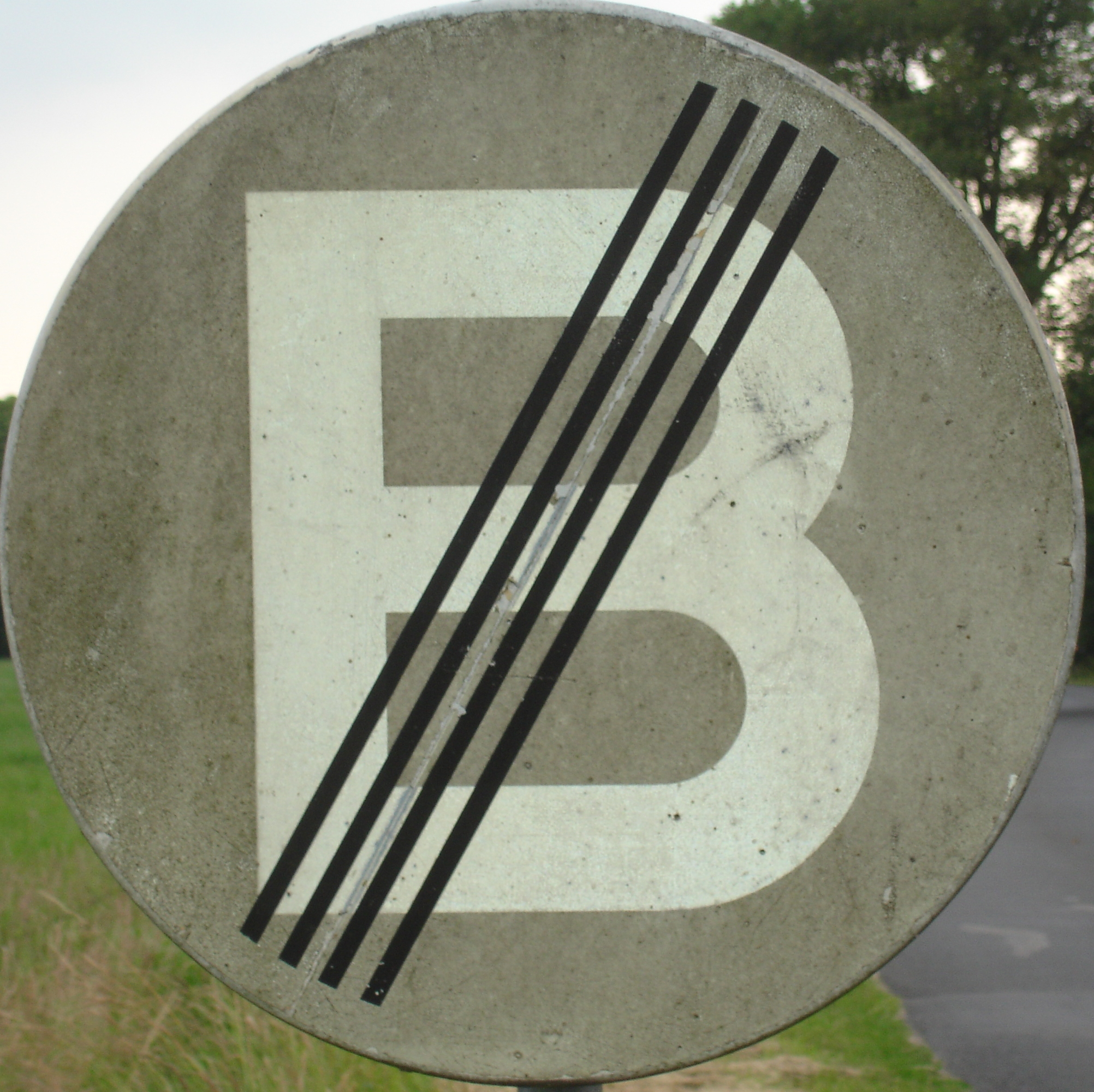 Obsolete road sign in Netherlands